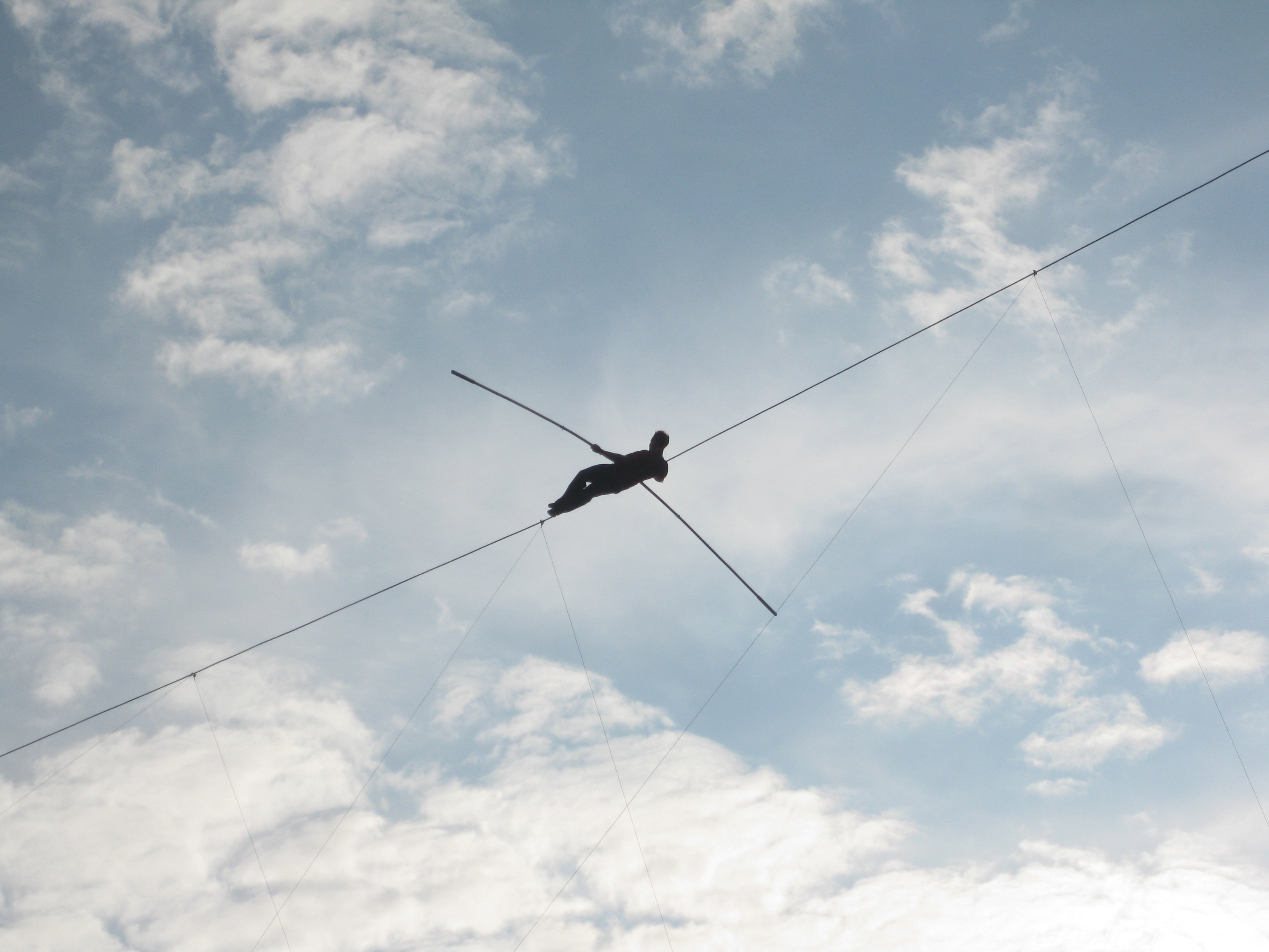 This is a photo of Nik Wallenda walking on a tight rope from Medieval Fare to Wonder Mountain at Canada's Wonderland.